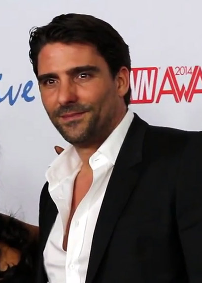 Toni Ribas at AVN Awards 2014